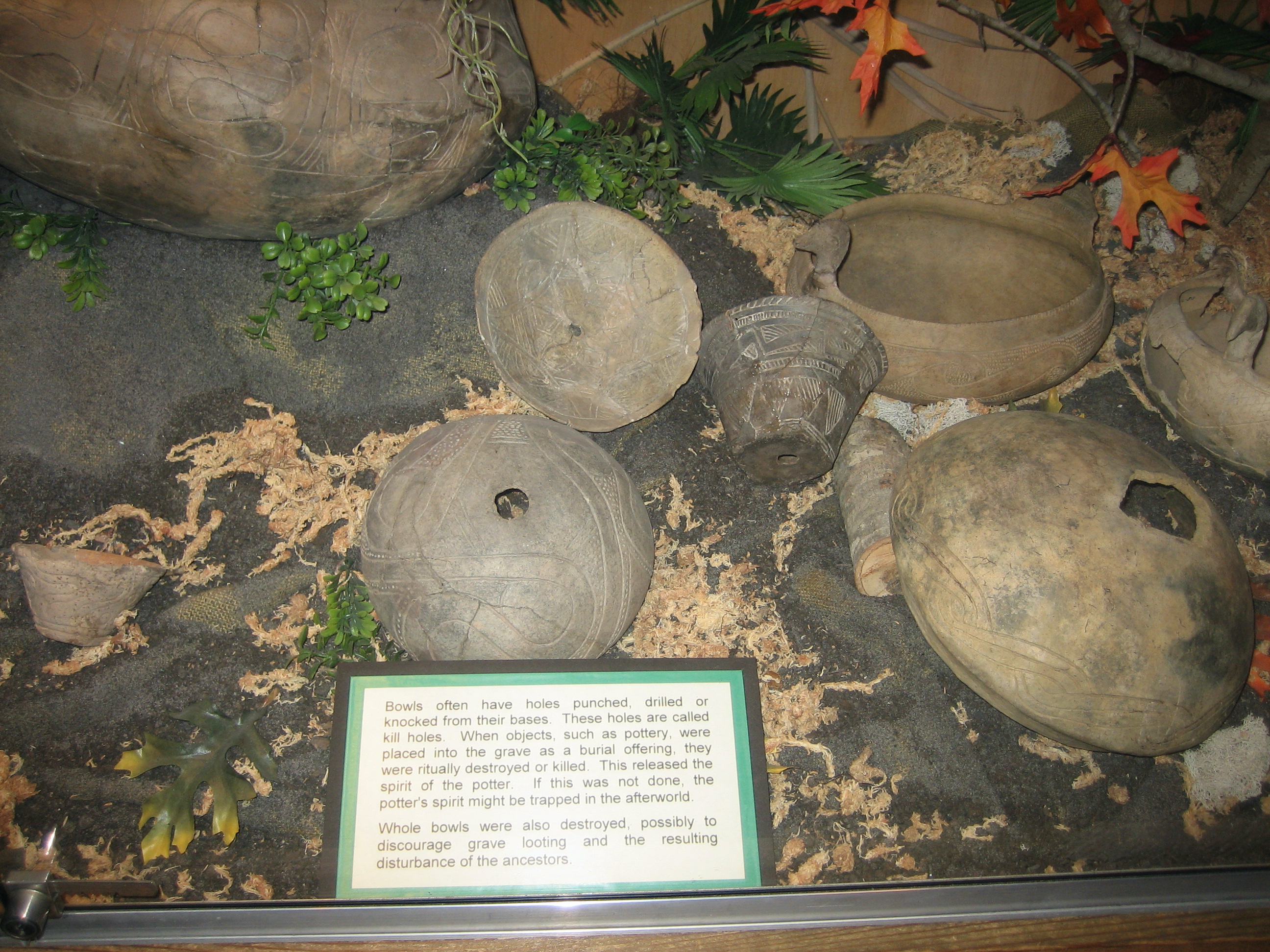 Native American pottery in Indian Temple Mound Museum, Fort Walton Beach, Florida